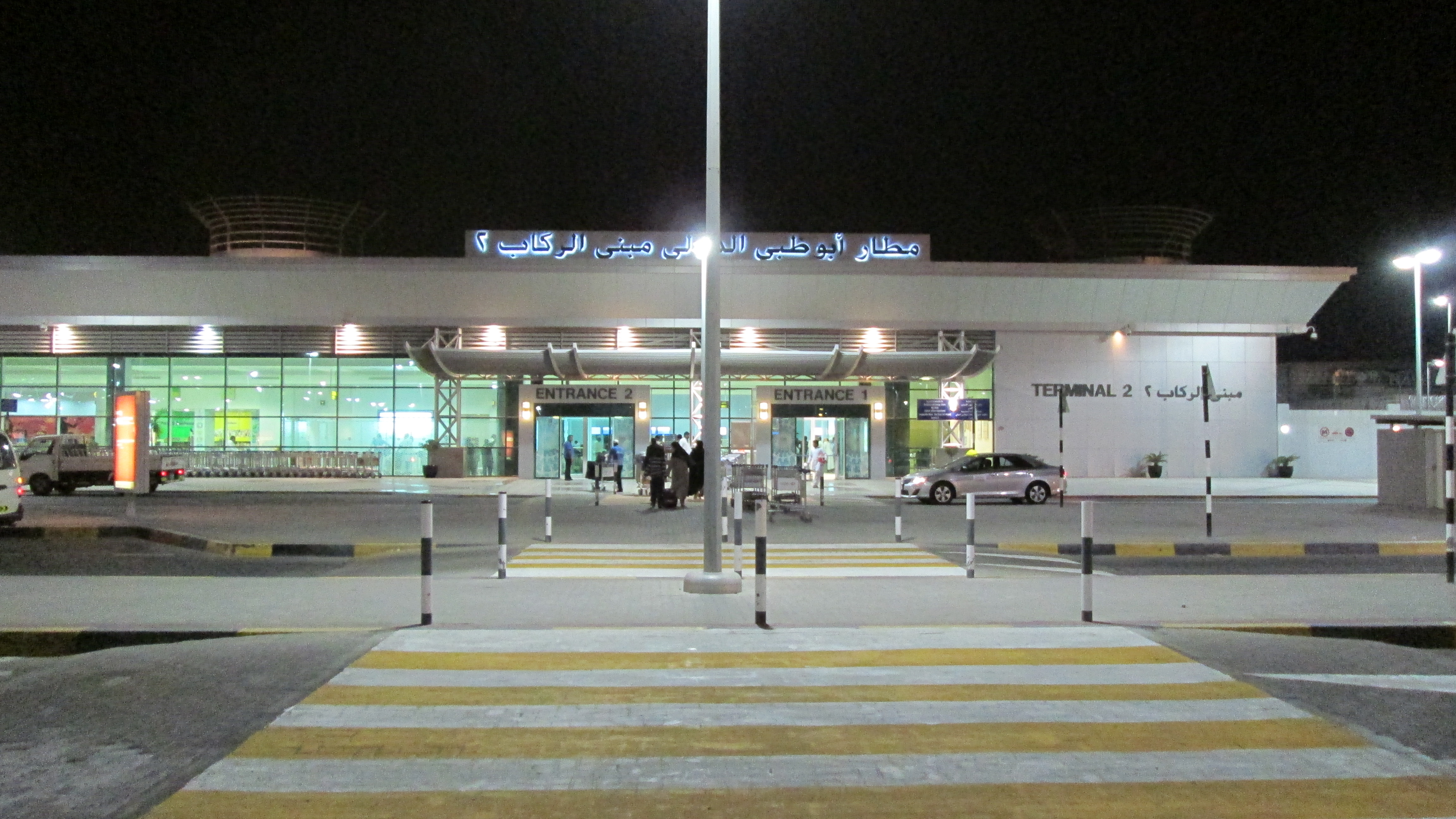 Abu Dhabi International Airport 30